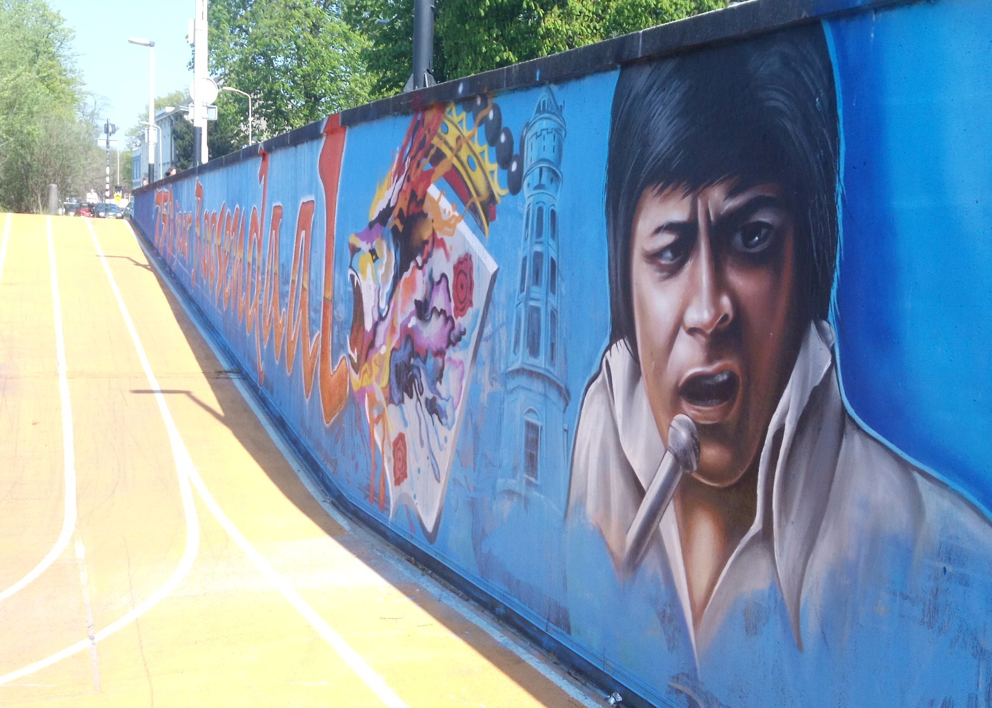 Mural at he Kadetunnel in Roosendaal, Netherlands